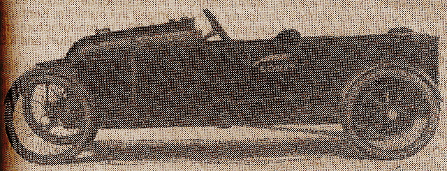 1914 Comet Cyclecar Model A